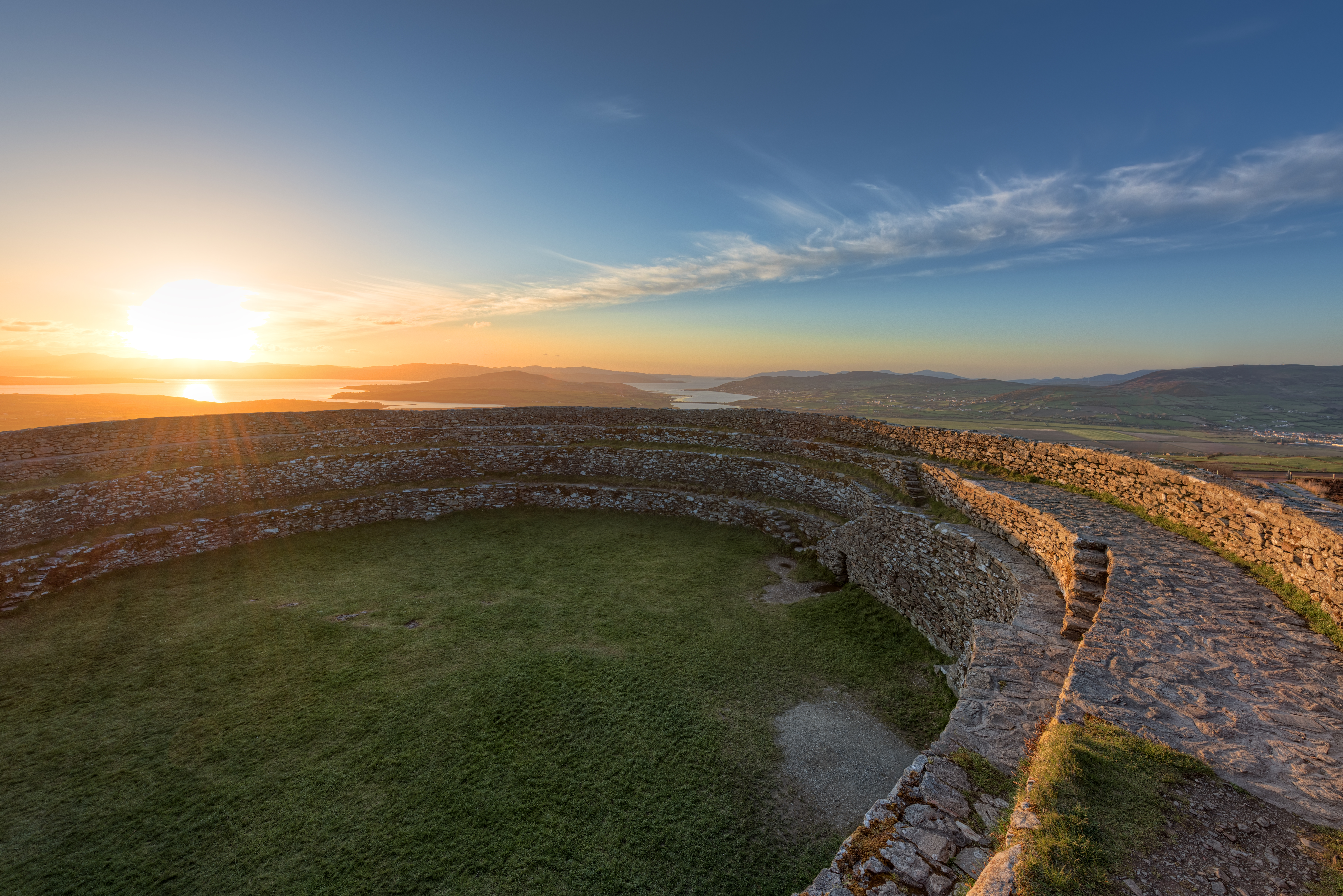 Overlooking Inch Island from the "Grainan of Aileach" ancient stone ring fort, Donegal, Ireland The fort was first constructed around 1700 BC (probably with earthen walls), by the Tuatha de Danann. It has been ascertained that it was the Palace of the Northern Princes, from a period long before Christianity (AD 400) up until the 14th century. Legend states that the giants of Inishowen (Princes of Aileach) are lying sleeping but when the sacred sword is removed they will spring to life reclaiming their ancient lands. A wonderful place to visit with some of the most amazing views seen throughout Donegal all next to an ancient stone fort were once Kings & Queens of Ireland reigned from, So much history and beauty in this area